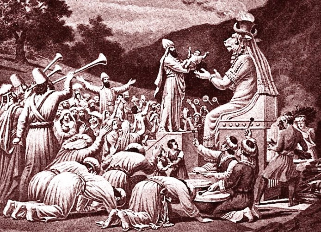 Artist's view of a sacrifice to Moloch in Bible Pictures with brief descriptions by Charles Foster, 1897. Original caption: "This is an idol named Molech. A great many people used to pray to this idol. It had the head of a calf, and was made of brass, and it was hollow inside. There was a place in the side to make a fire in it. When it got very hot the wicked people used to put their little children in its arms. The little children were burned to death there. This man in the picture is just going to put a little child in the idol's arms. Other men are blowing on trumpets and beating on drums, and making a great noise, so that no one can hear the poor little child cry."